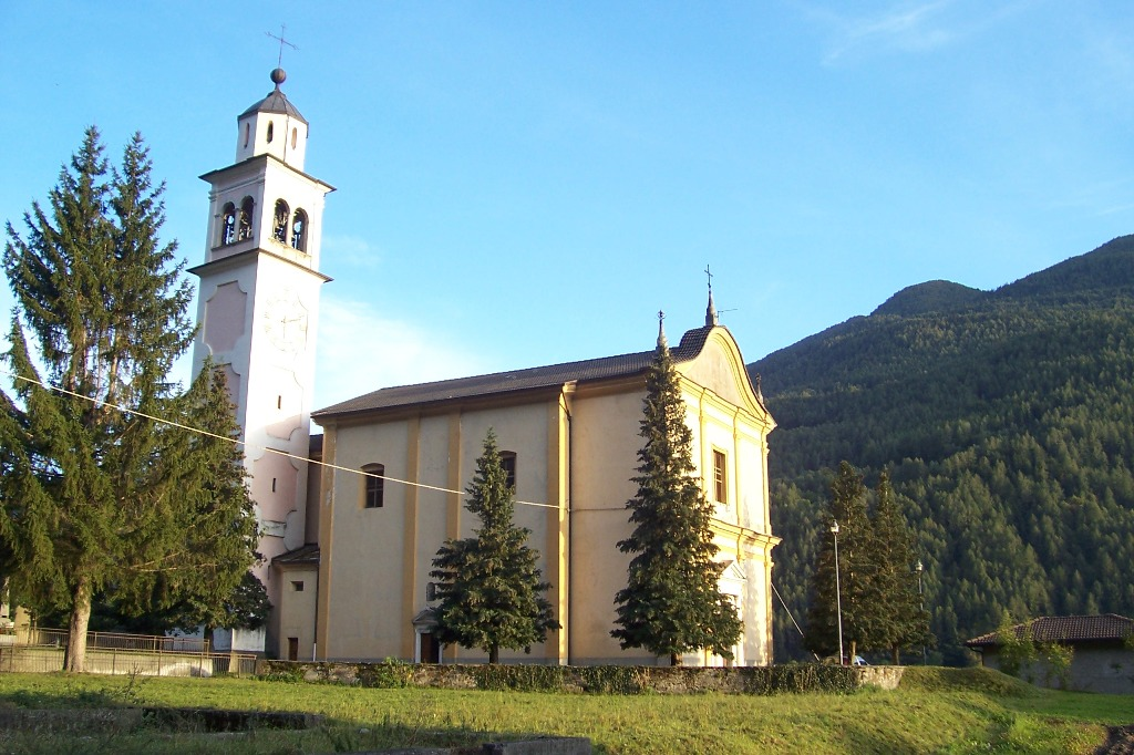 S. Gregorio Magno, Cortenedolo, Val Camonica